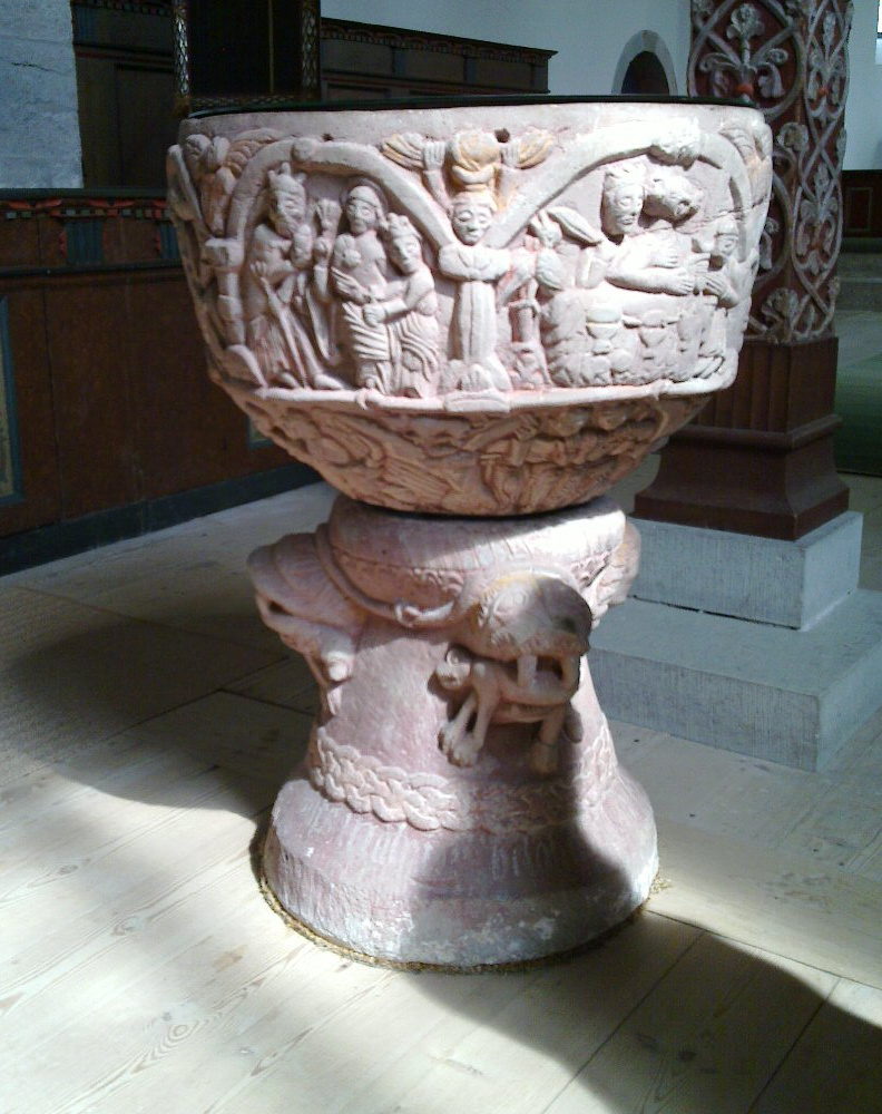 Church of Stånga, Gotland, Sweden